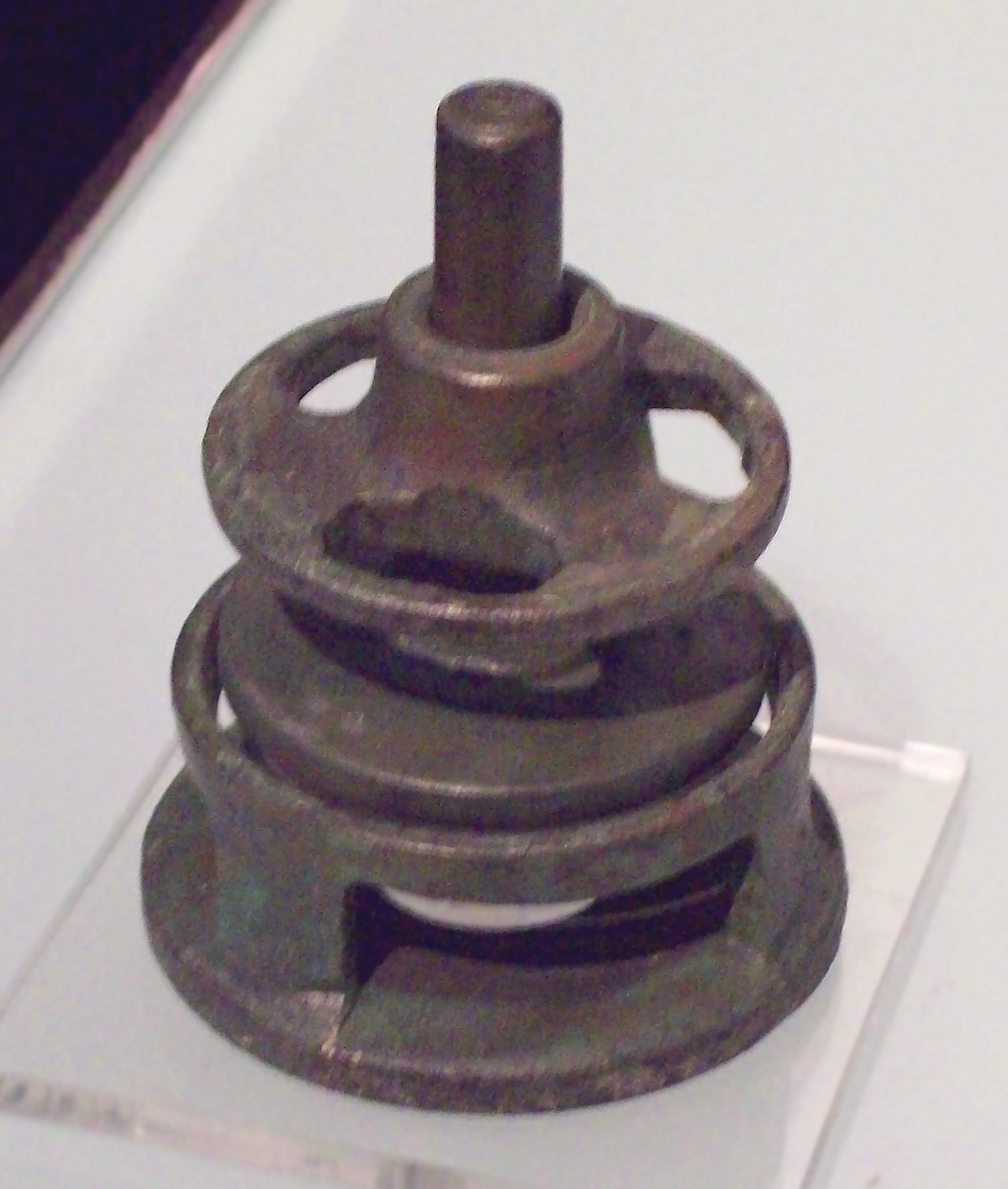 Piece of an Ancient Roman hydraulic pump.